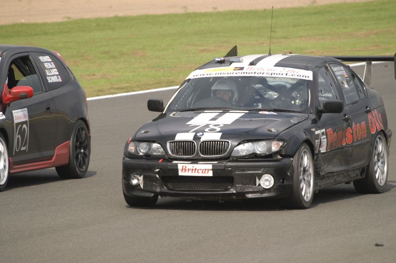 Richard Hammond drives the Top Gear BMW 330d at Silverstone in the Britcar 24h race.